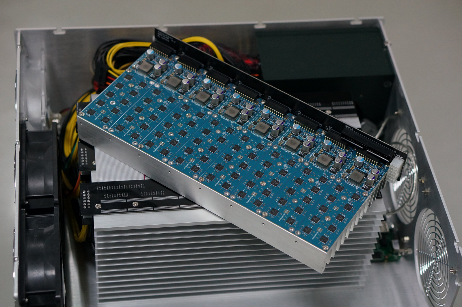 One of the world first ASIC base bitcoin mining machine.